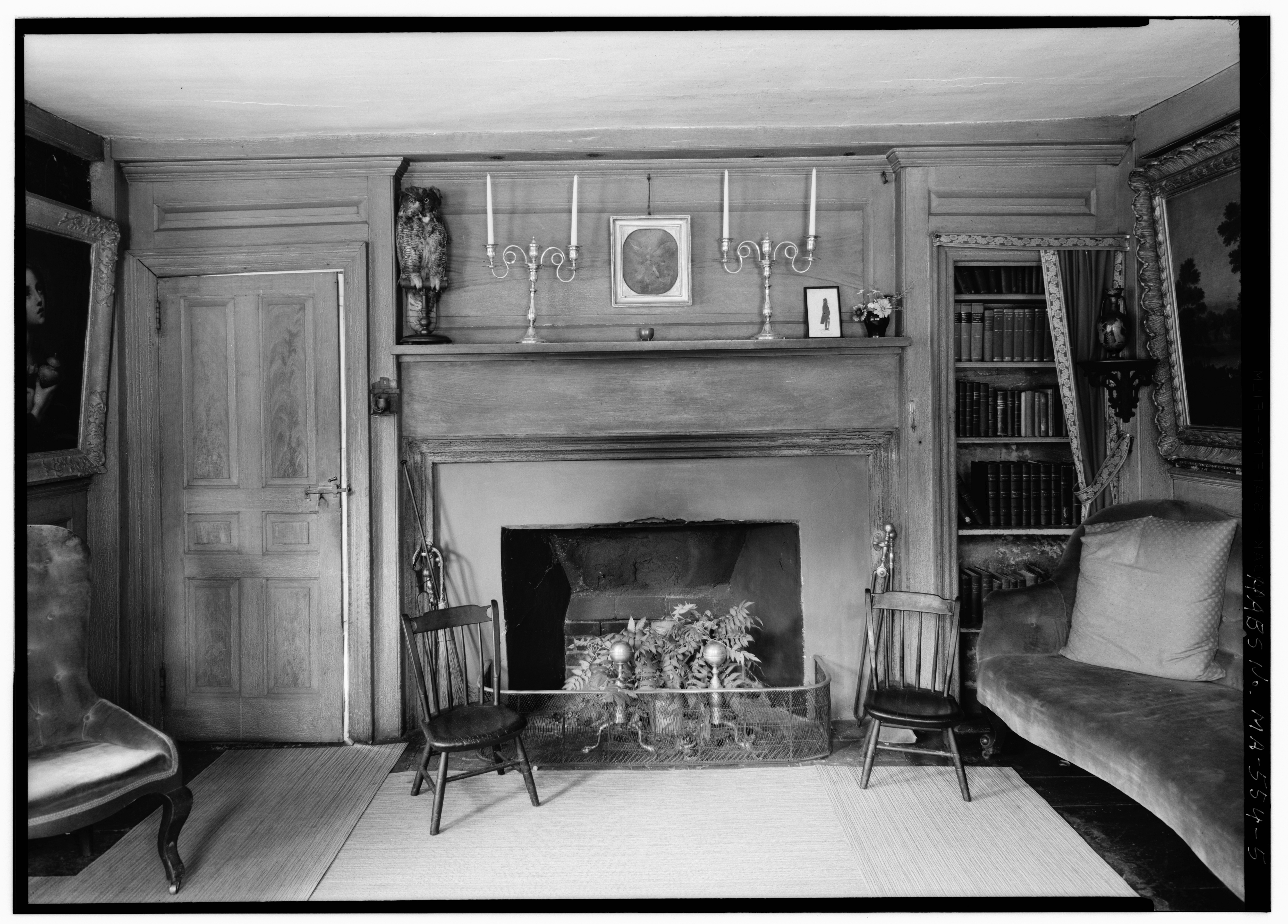 The Old Manse, Concord, Massachusetts, USA. This photograph is from the Library of Congress Historic American Buildings Survey, Survey number HABS MA-554. Call Number: HABS MASS,9-CON,3-. Photographer: Frank O. Branzetti; photograph taken April 7, 1941.